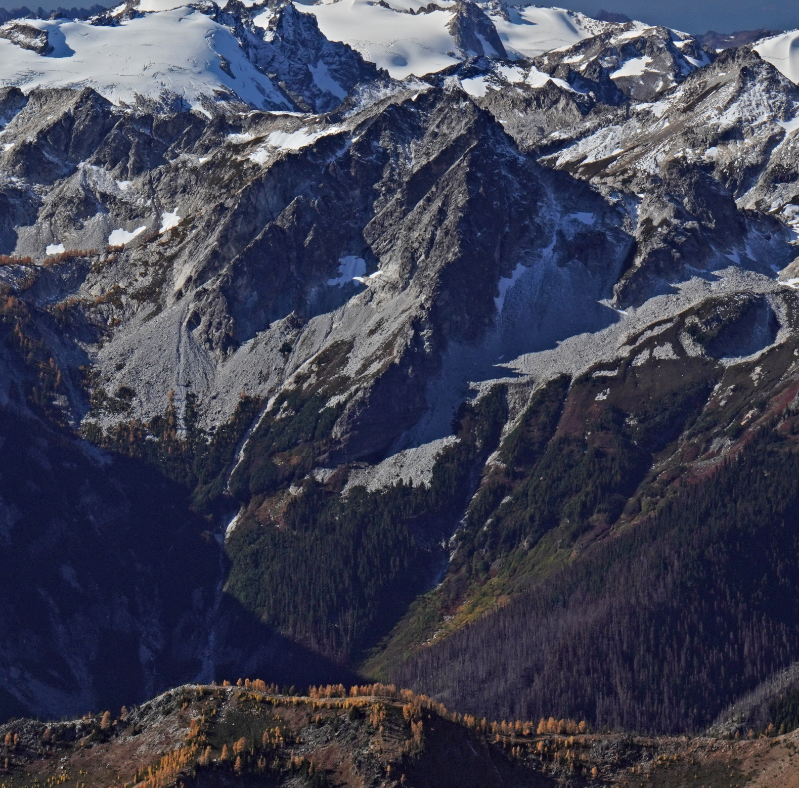 Mount Berge seen from Mt. Maude